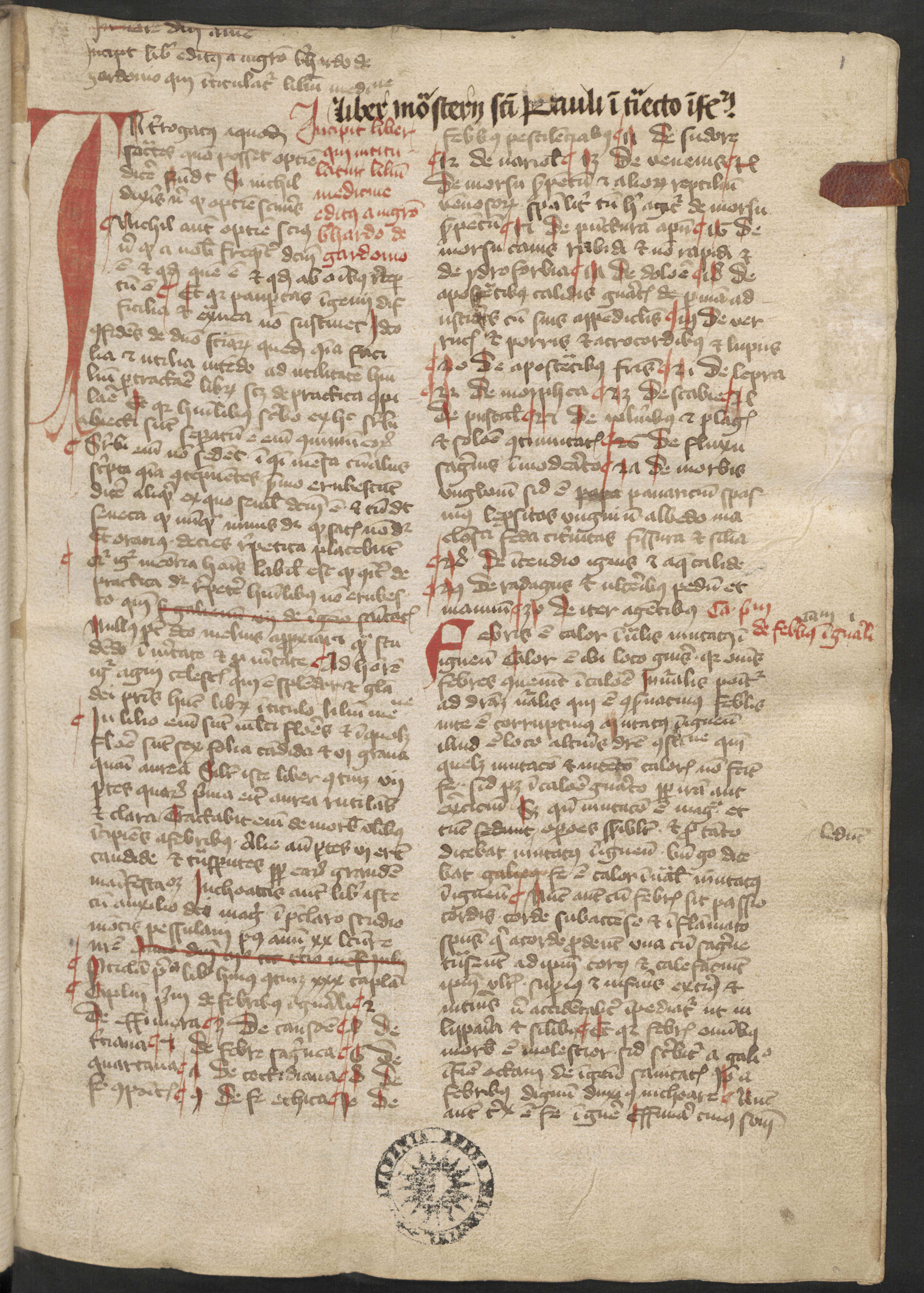 Ms.685, fol. 1r.